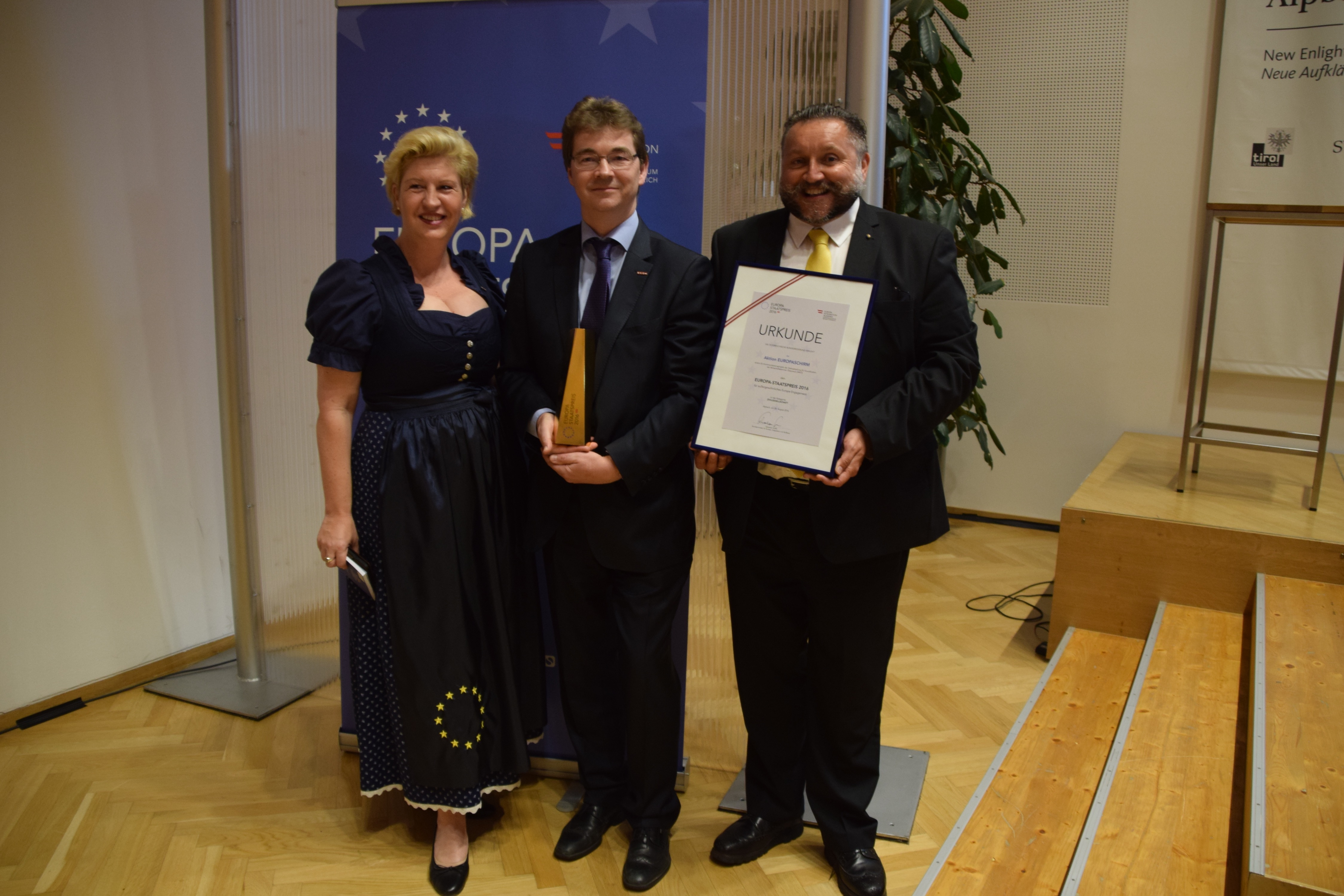 Awarded the Austrian State Prize for Europe by the Austrian Foreign Ministry in the civil society category for the campaign and idea "Europe parasol". The picture shows the employees of the European division of the Austrian Federal Economic Chamber (from left to right): Margit Havlik, Christian Mandl and Karl-Heinz Wanker.